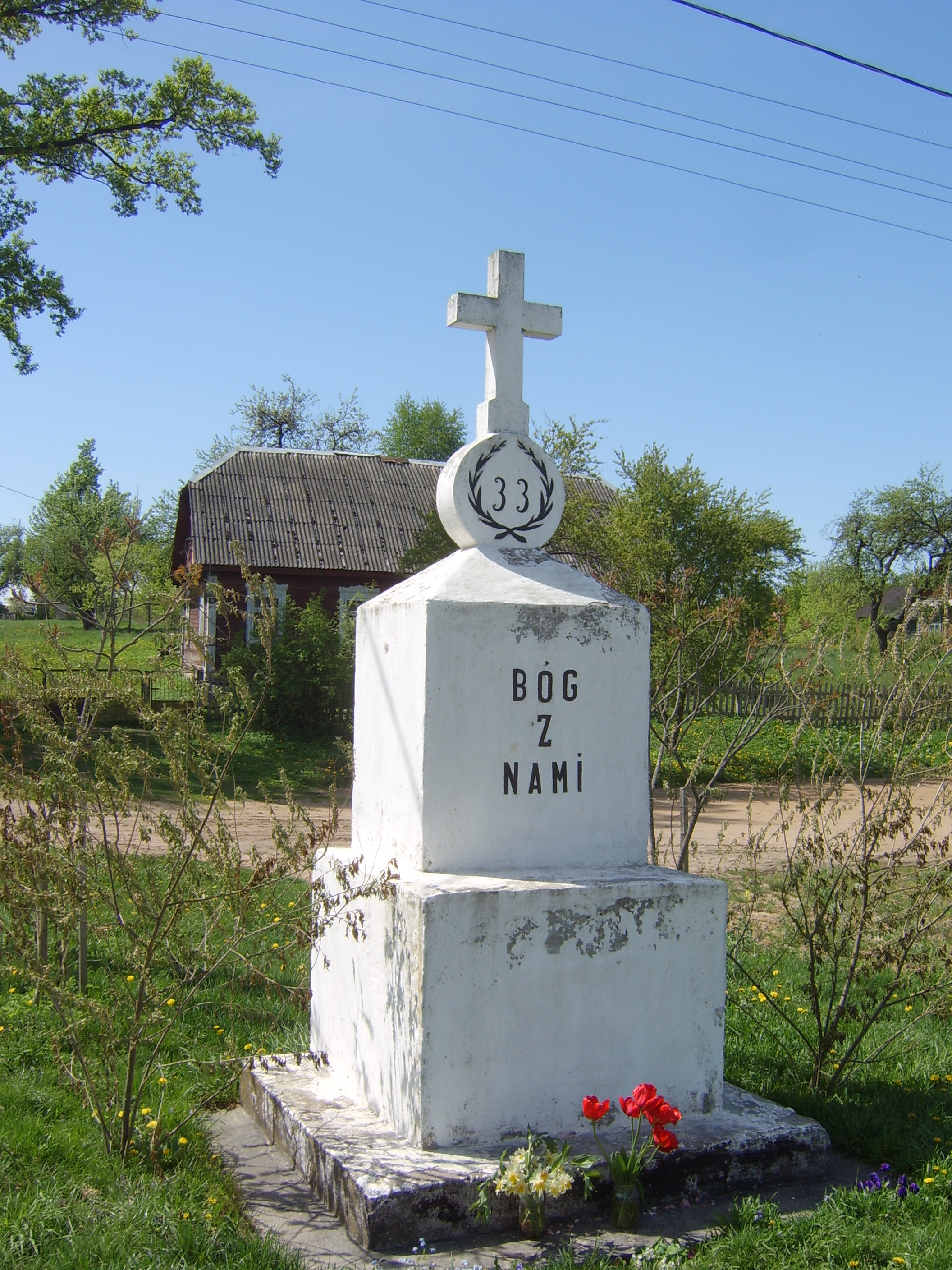 Darava. Roadsides Chapel, 1933